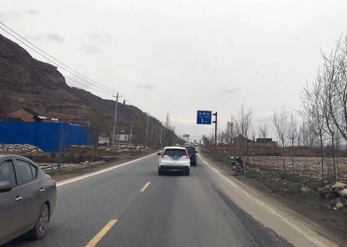 China national highway G213 near Maji Town, Linxia